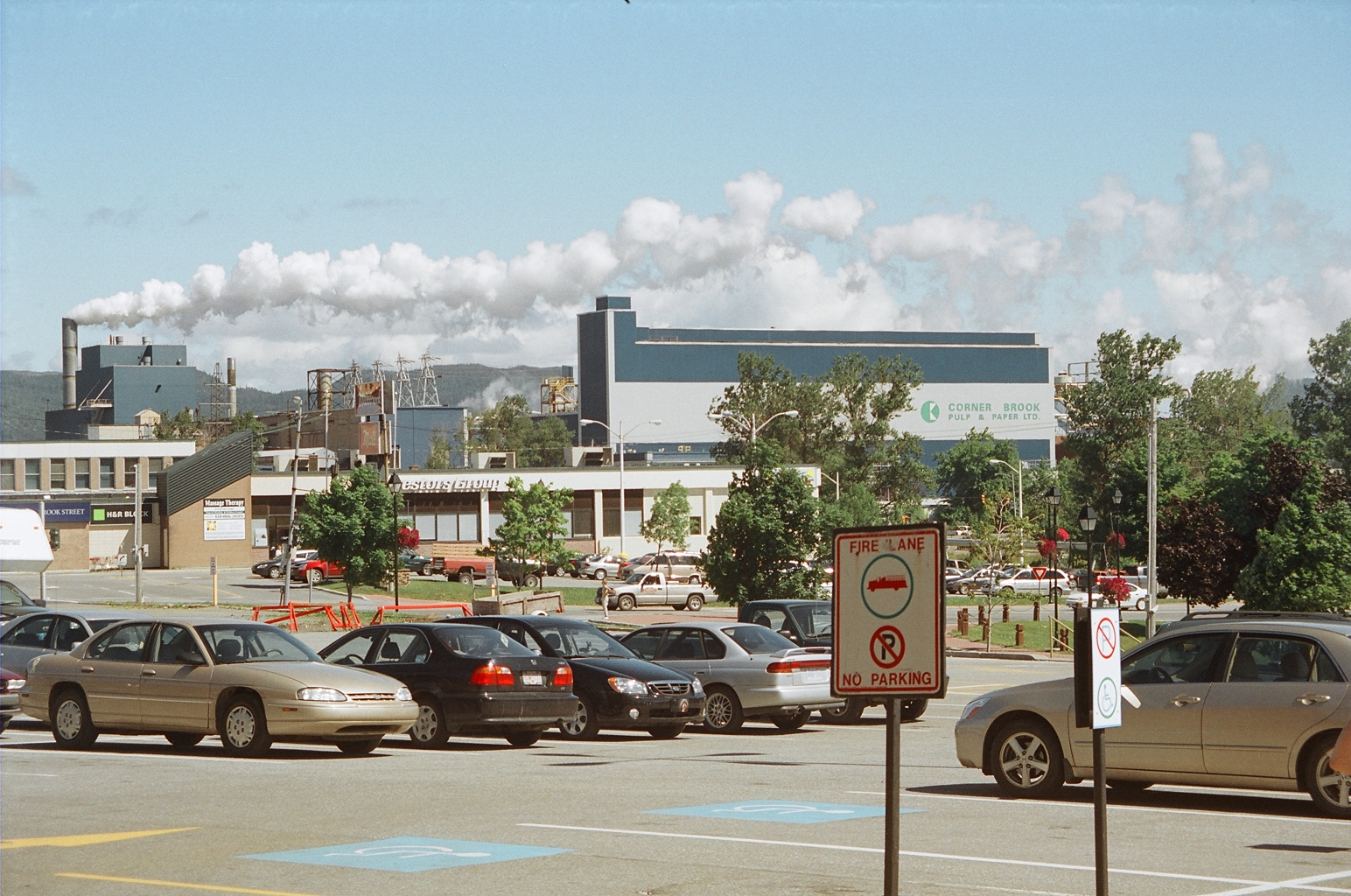 West coast of Newfoundland including Port au Port penensula, to Port aux Chois and Long Range Mountains. Stephenville and Corner Brook..